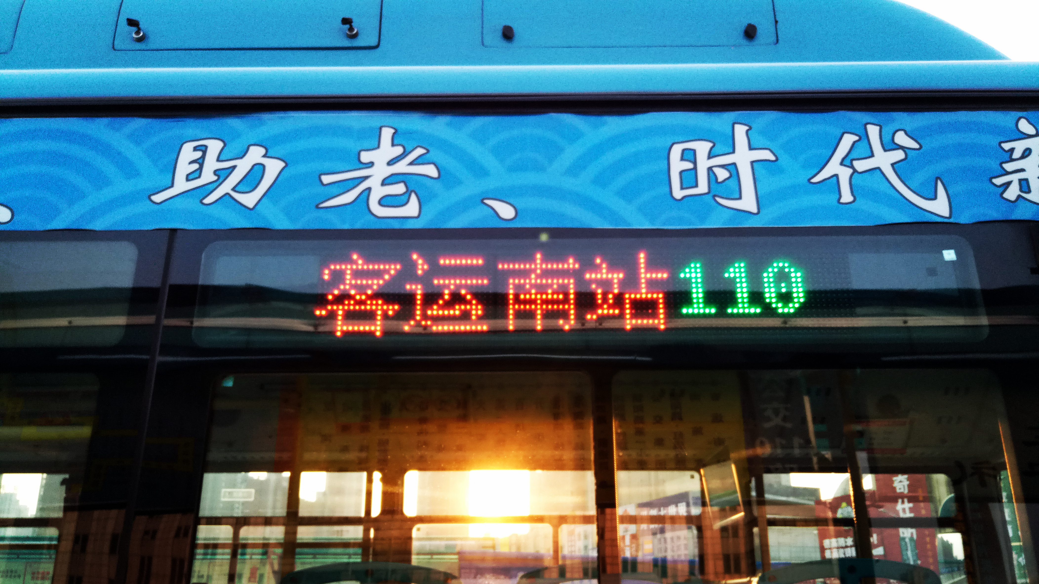 Bengbu Bus No.110 LED